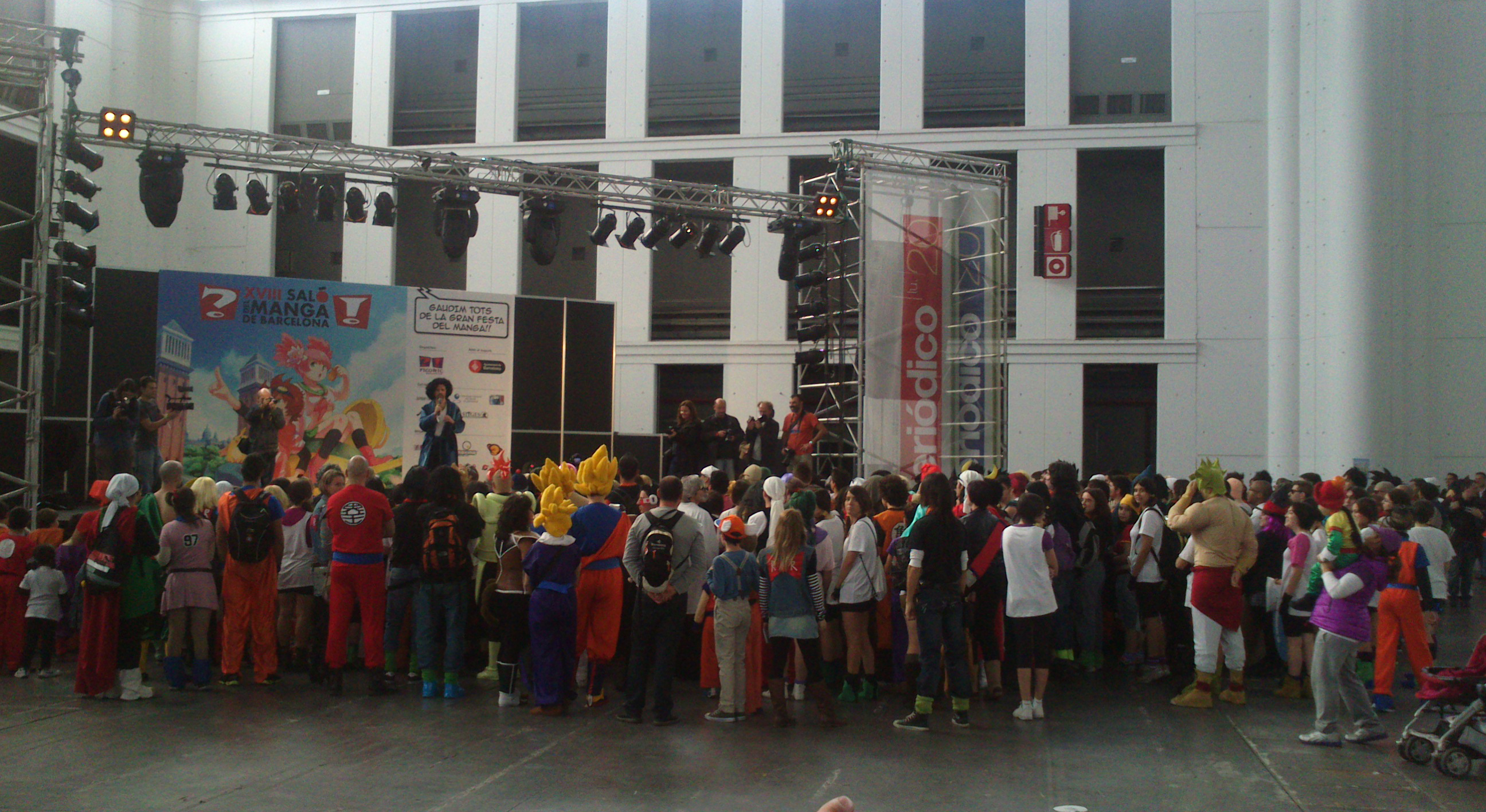 Dragon Ball cosplayers in XVIII Barcelona Saló del Manga